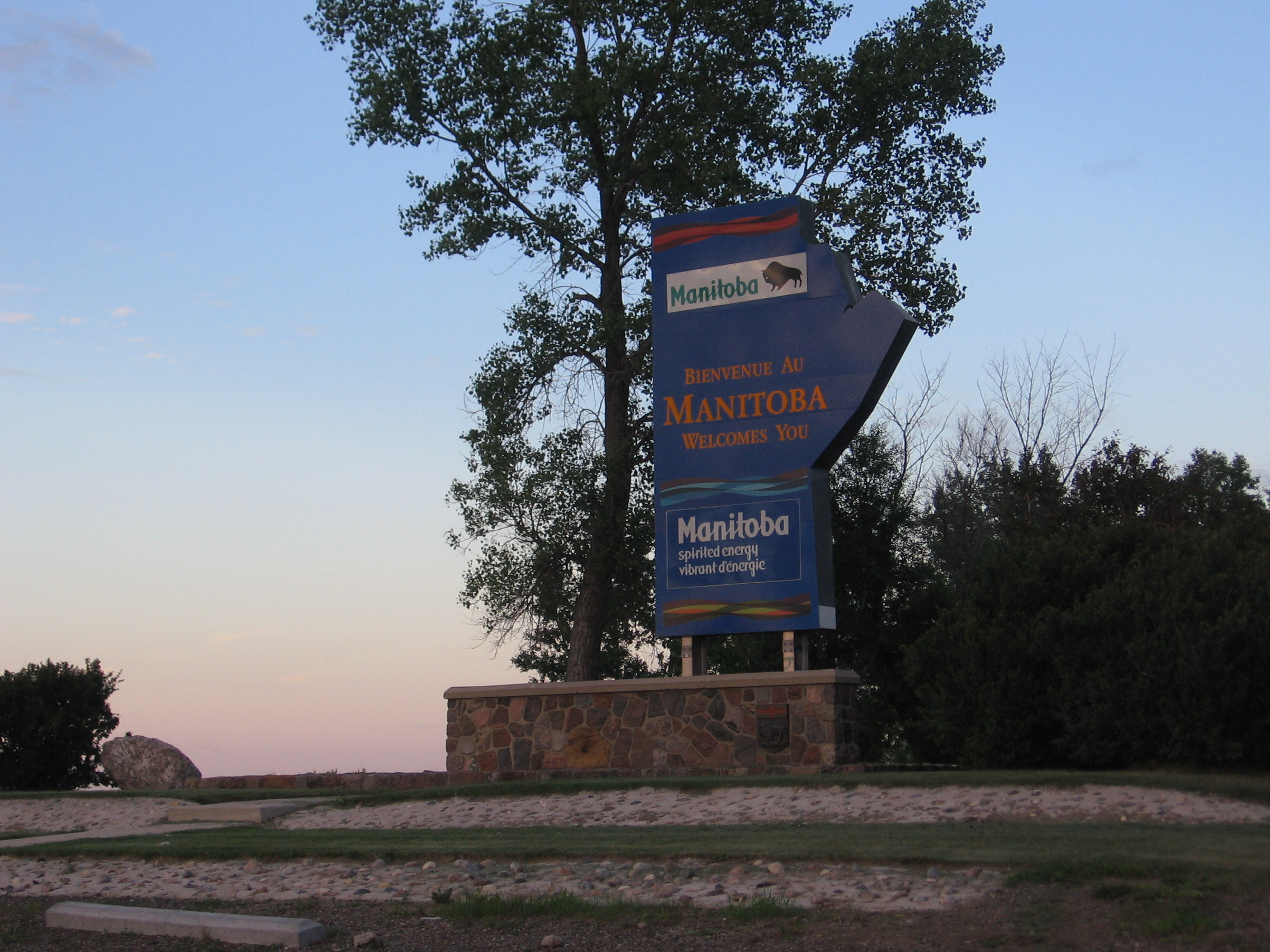 Welcome to Manitoba sign on the Trans Canada Highway, entering Manitoba from Saskatchewan